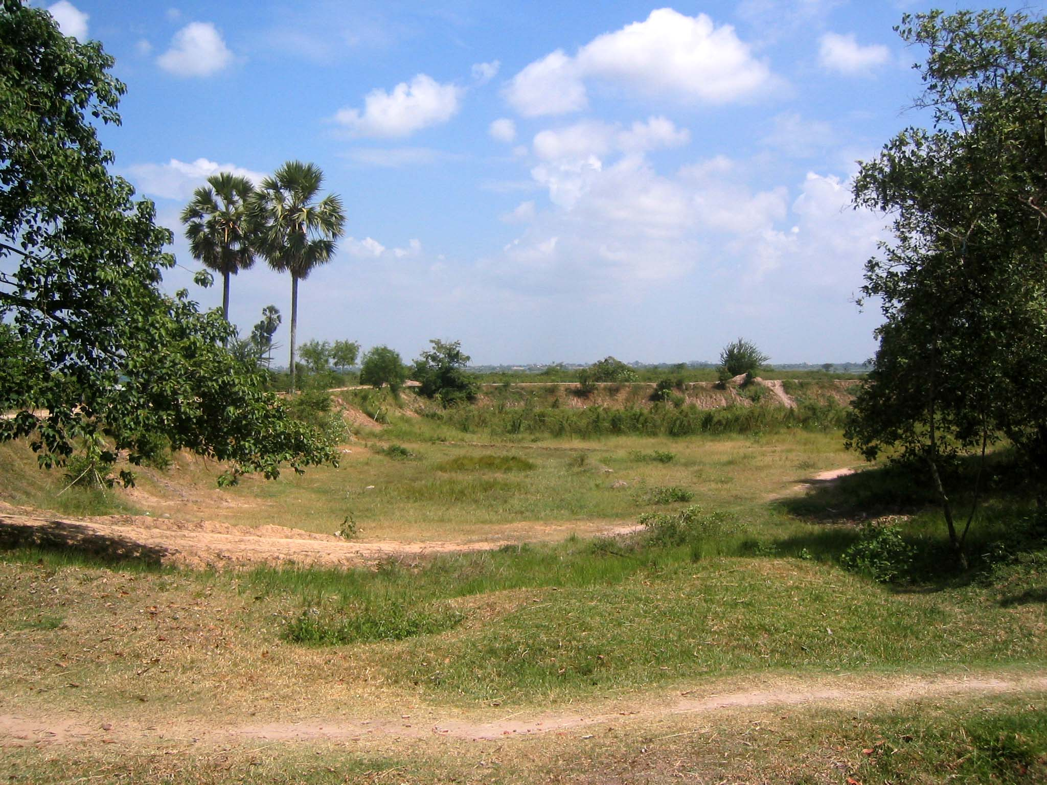 Photographed and uploaded to English Wikipedia by Michael Darter